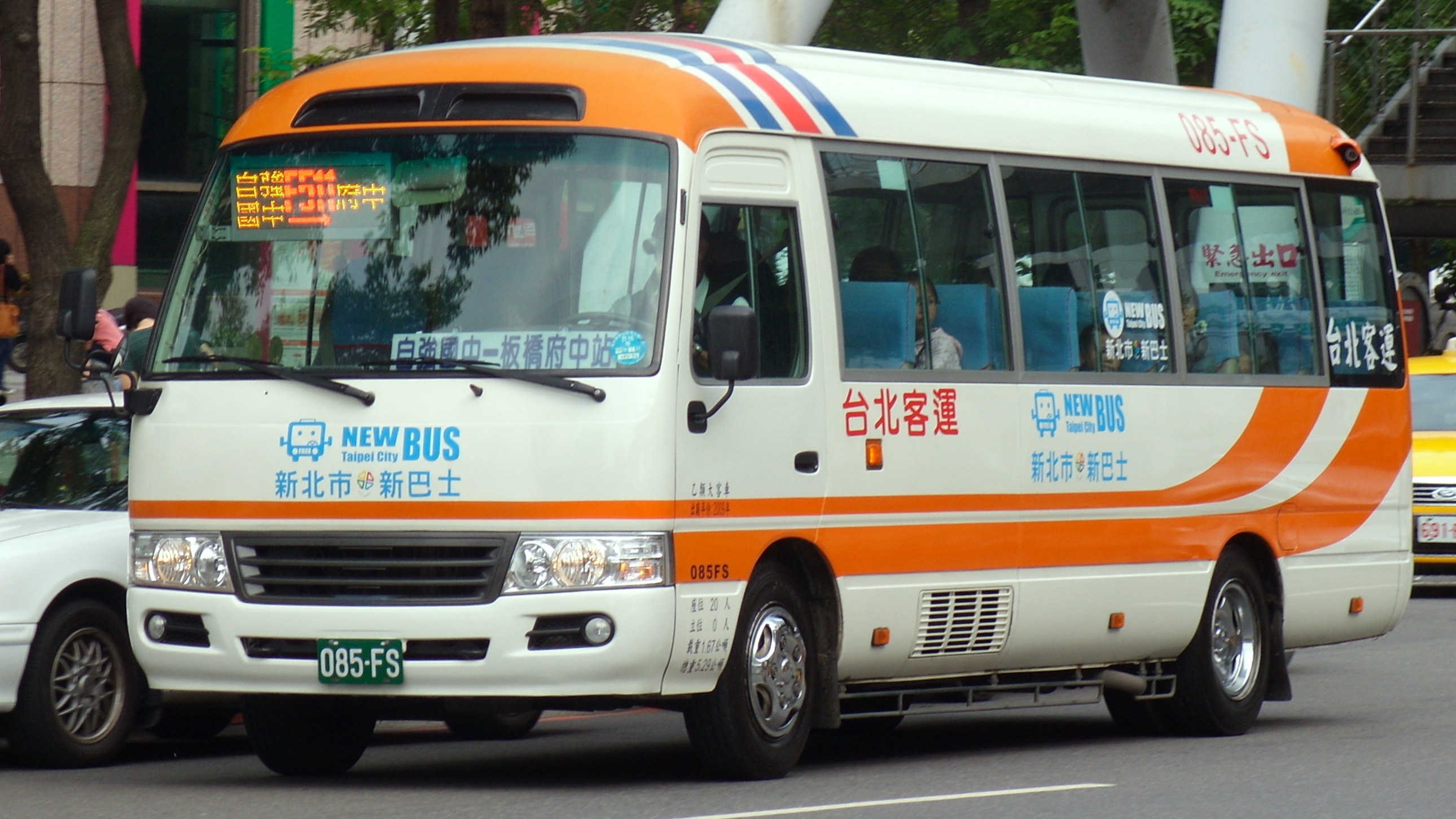 NTPC New Taipei New Bus - F511 Route by Taipei Bus Corp..中文（台灣）: 台北客運的新北市新巴士F511路豐田Coaster巴士085-FS。